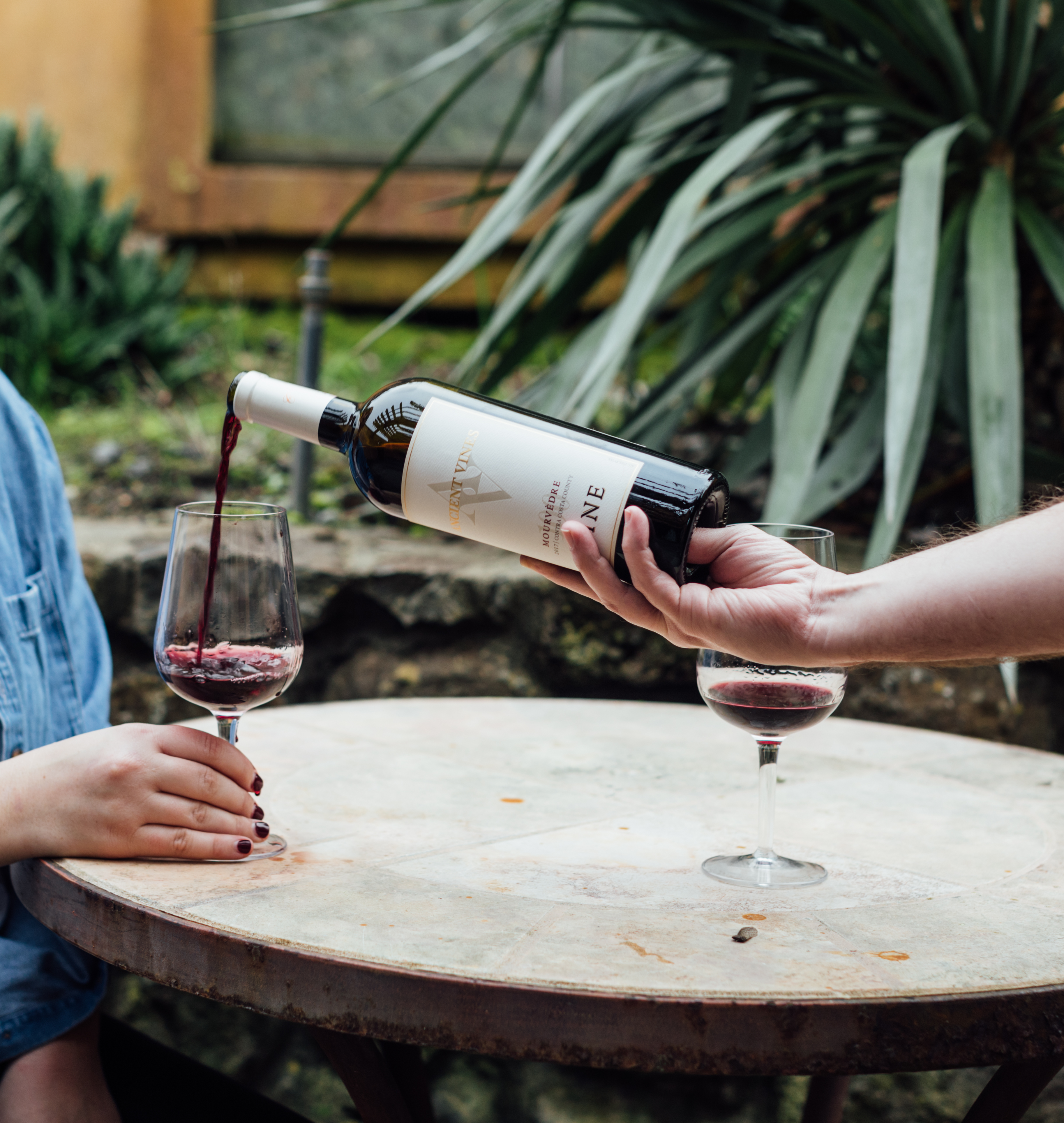 Cline wine bottle